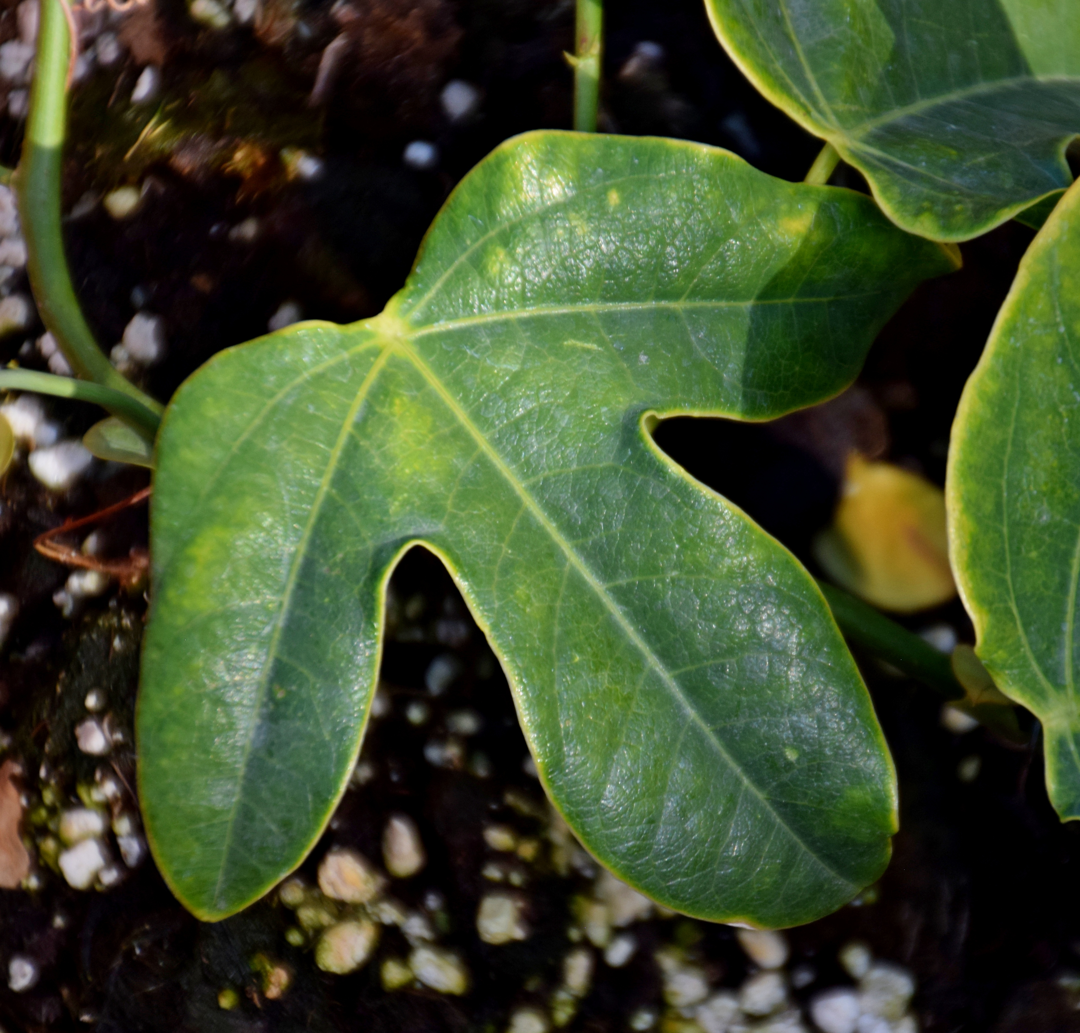 Passiflora racemosa in Jardin des Plantes de Toulouse